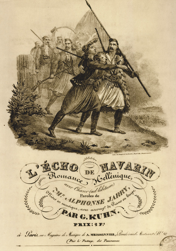 L’Echo de Navarin, romance hellènique …paroles de Mr Alphonse Jarry